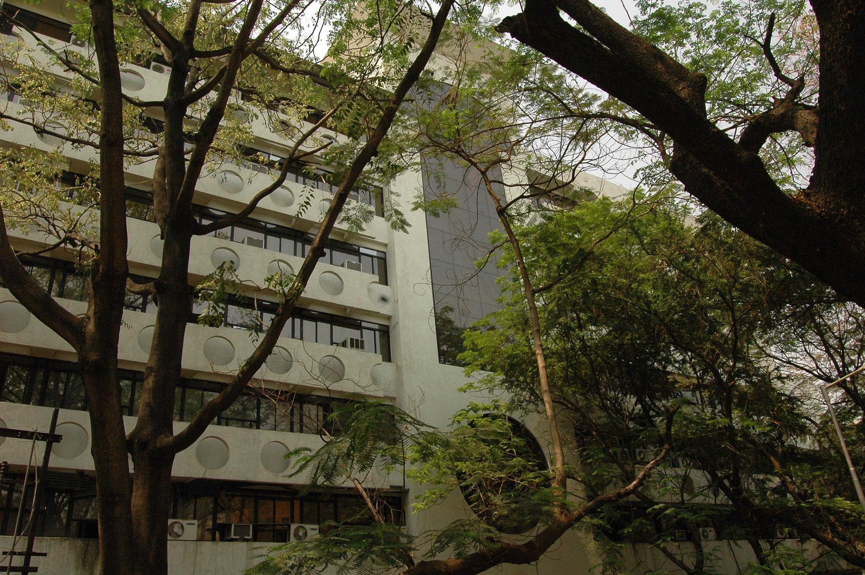 Photo of G.H.Raisoni Institute of Information Technology